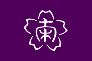 Flag of Minamiaiki Nagano